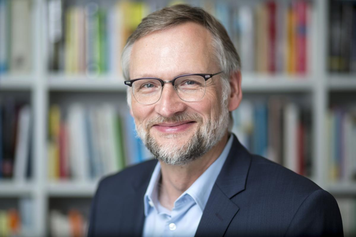 Portrait of Ralph Hertwig